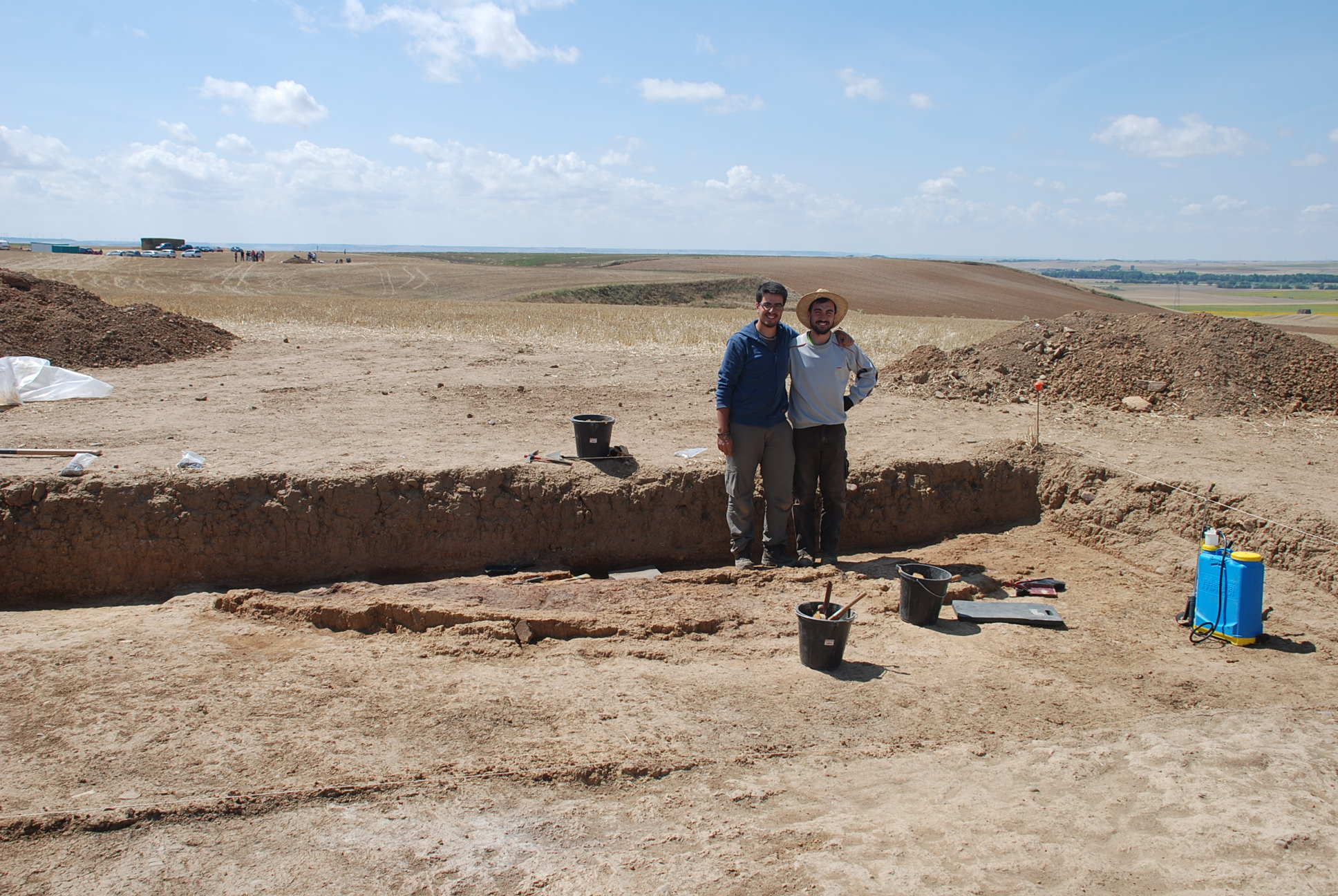 Archaeological excavations at the site of Dessobriga in Osorno la Mayor (province of Palencia, Castile and León). Remains of the wall of a circular hut and a continuous bench of Adobe, the first iron age, from the 8th century c., until the third century of our era.